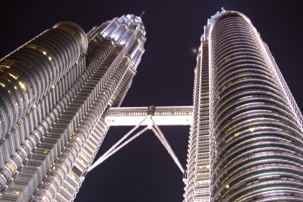 Petronas Tower in the night